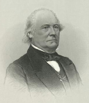 Colonel Richard Borden, pioneer of early Fall River industry